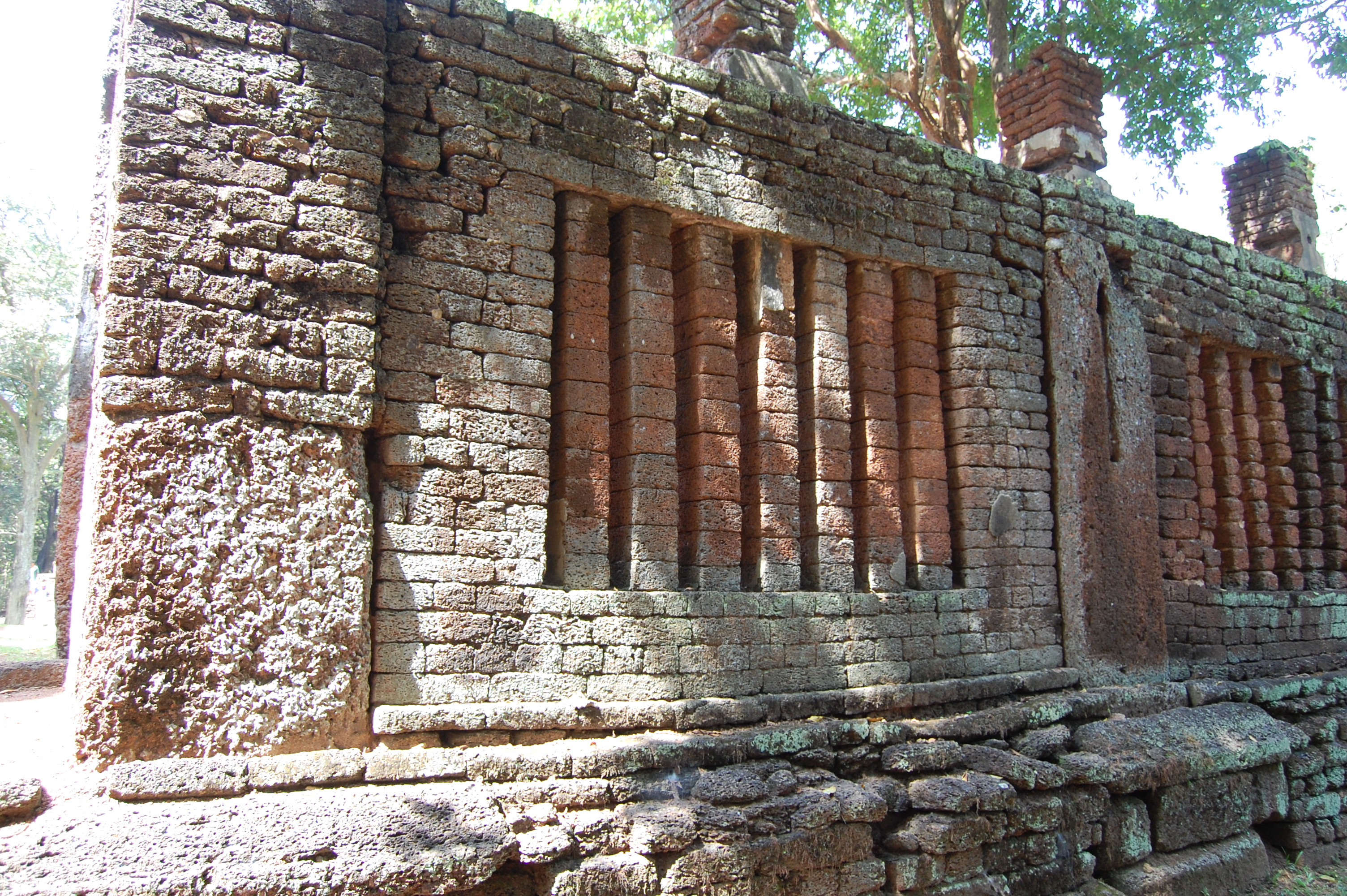 Kamphaeng Phet historical park